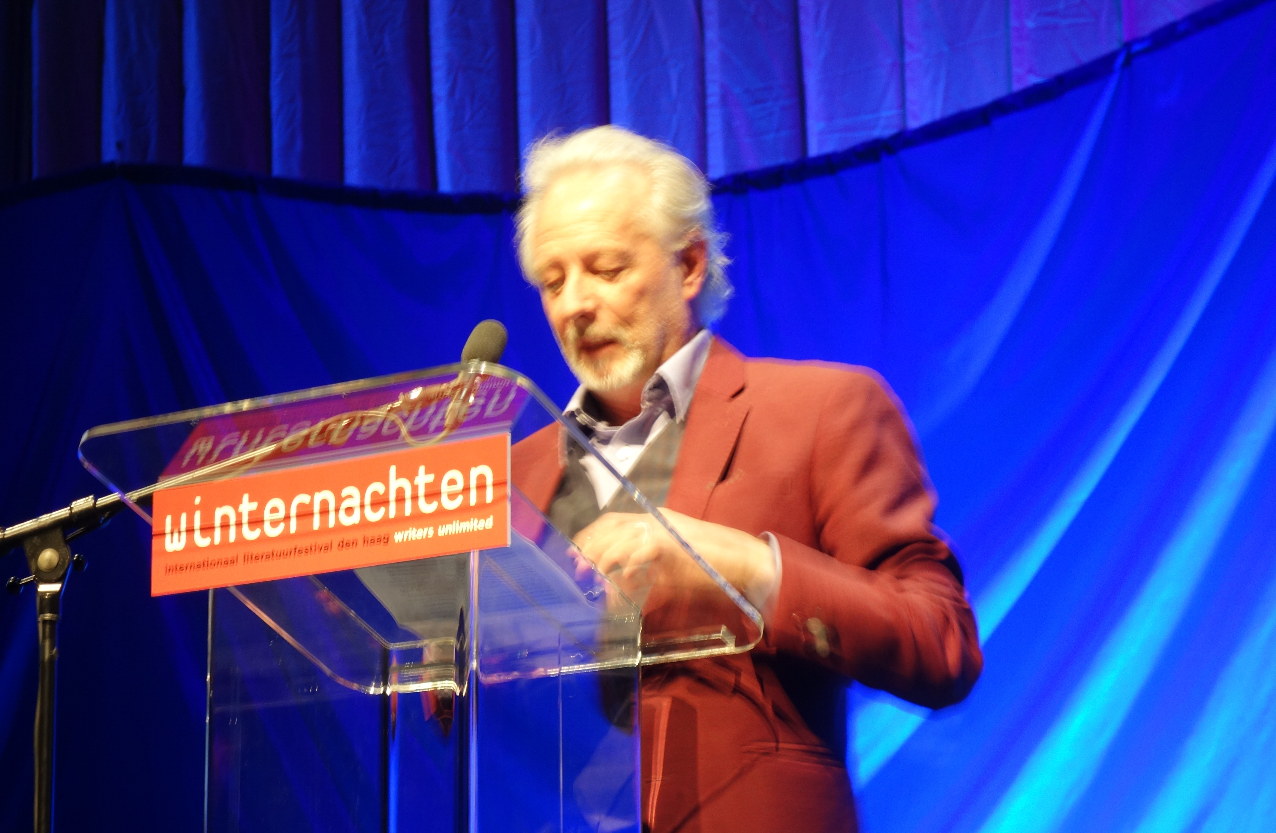 Stefan Hertmans at Winternachten 2020, The Hague